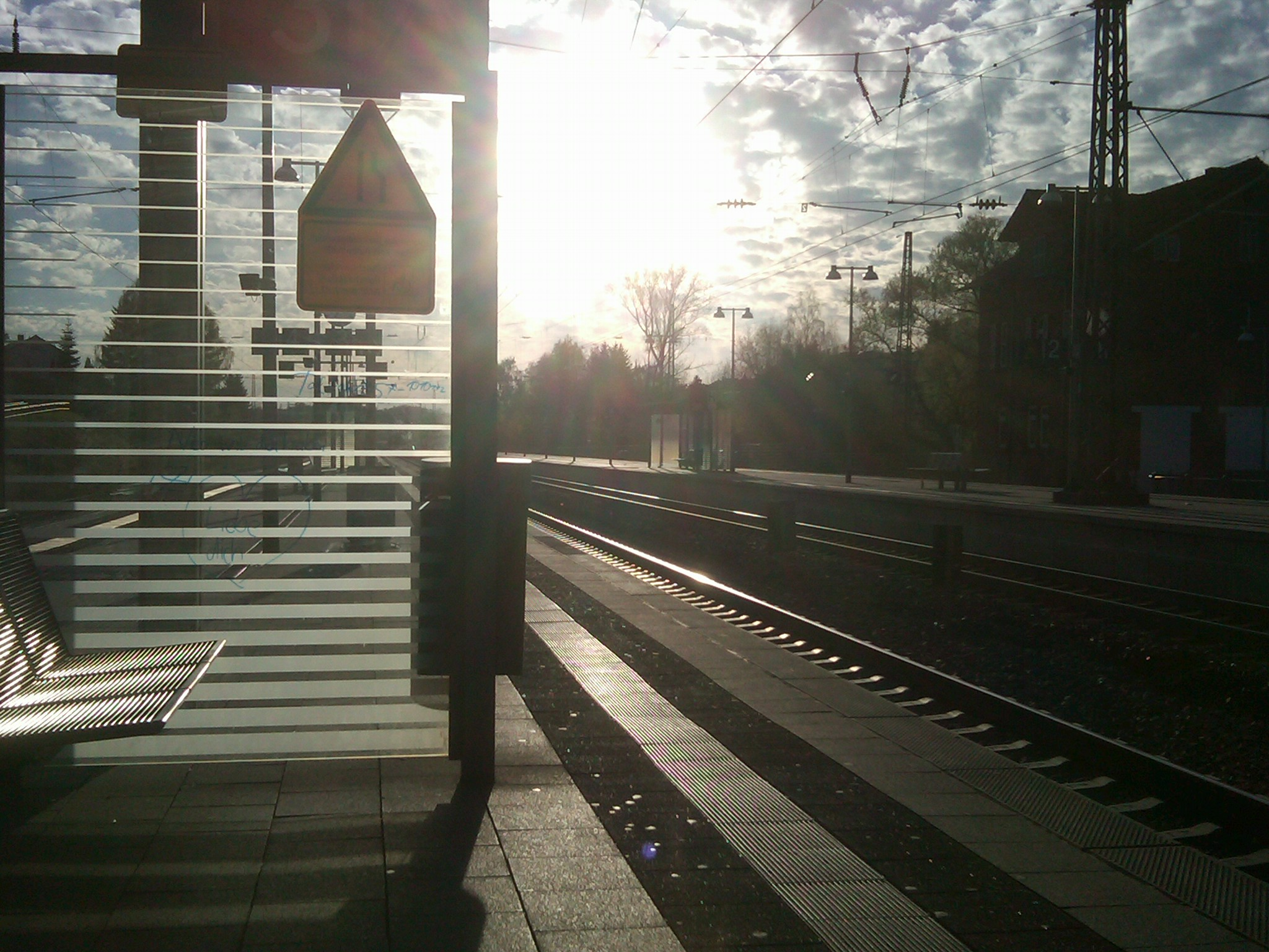 Hochspeyer Bahnhof - Platform at dusk